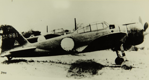 PictionID:6499093 - Catalog:01_00085688 - Title:Mitsubishi, A6M, Zero - Filename:01_00085688.TIF - Image from the Charles Daniels Photo Collection album "Seversky, Republic and P-47"----PLEASE TAG this image with any information you know about it, so that we can permanently store this data with the original image file in our Digital Asset Management System.----SOURCE INSTITUTION: San Diego Air and Space Museum Archive